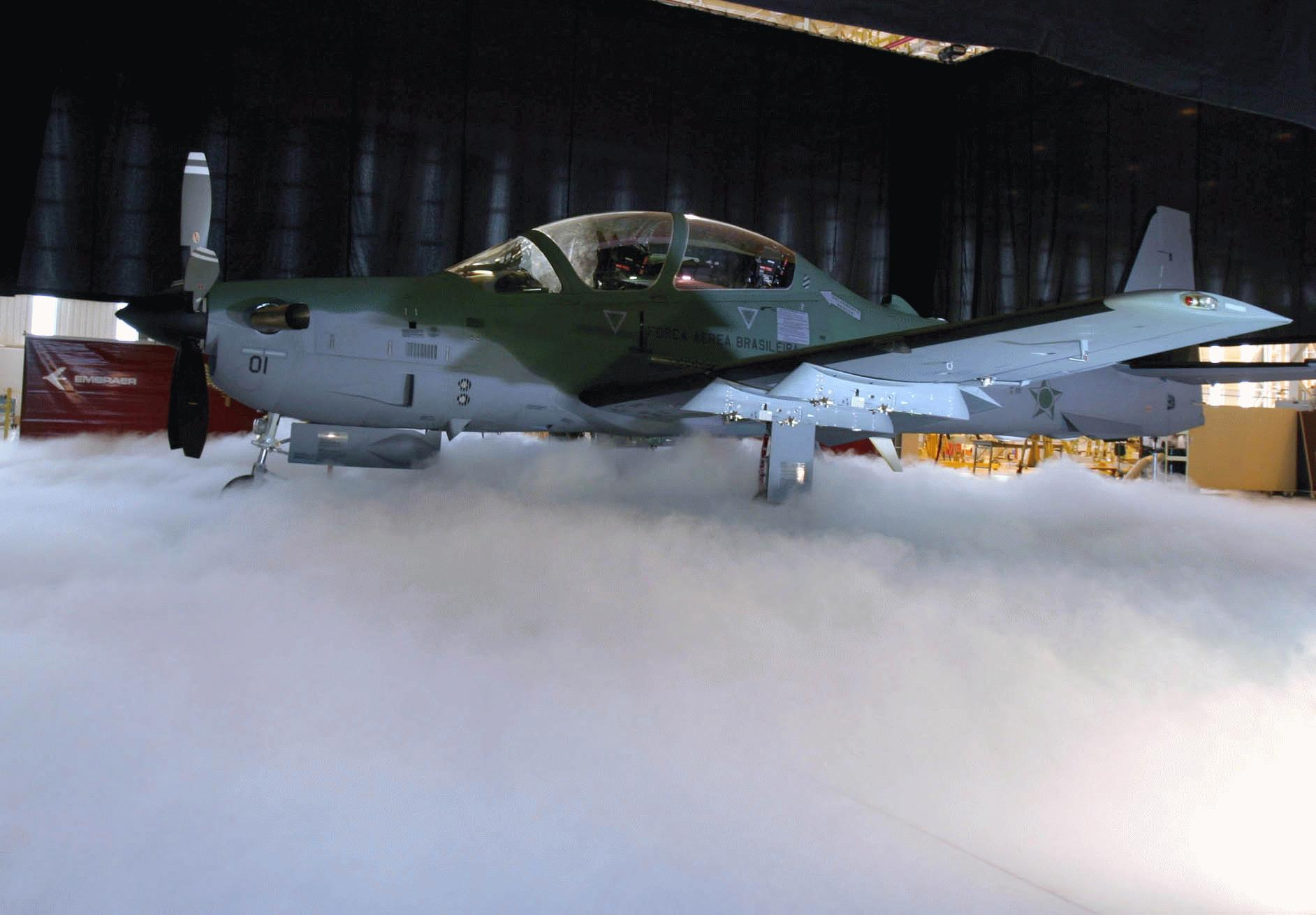 Launching day for Super Tucano in 2003